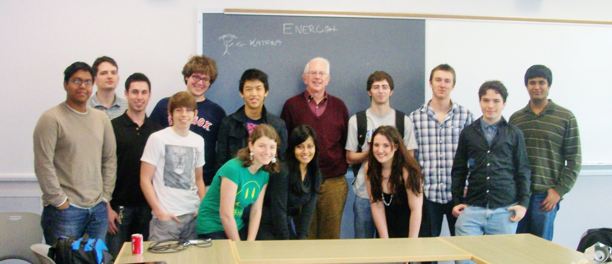 Professor Sheldon Lee Glashow's PY 101 Energy class, at Boston University in Spring 2011